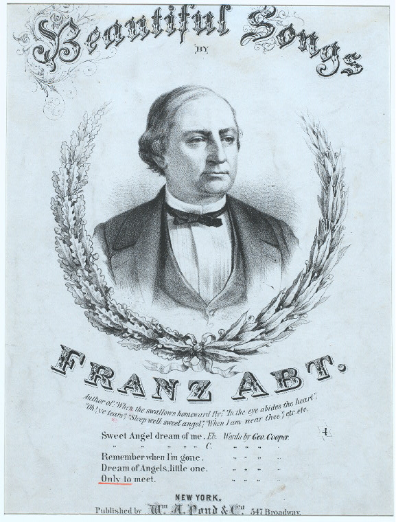 Taken from - published in the US before 1923, consequently PD